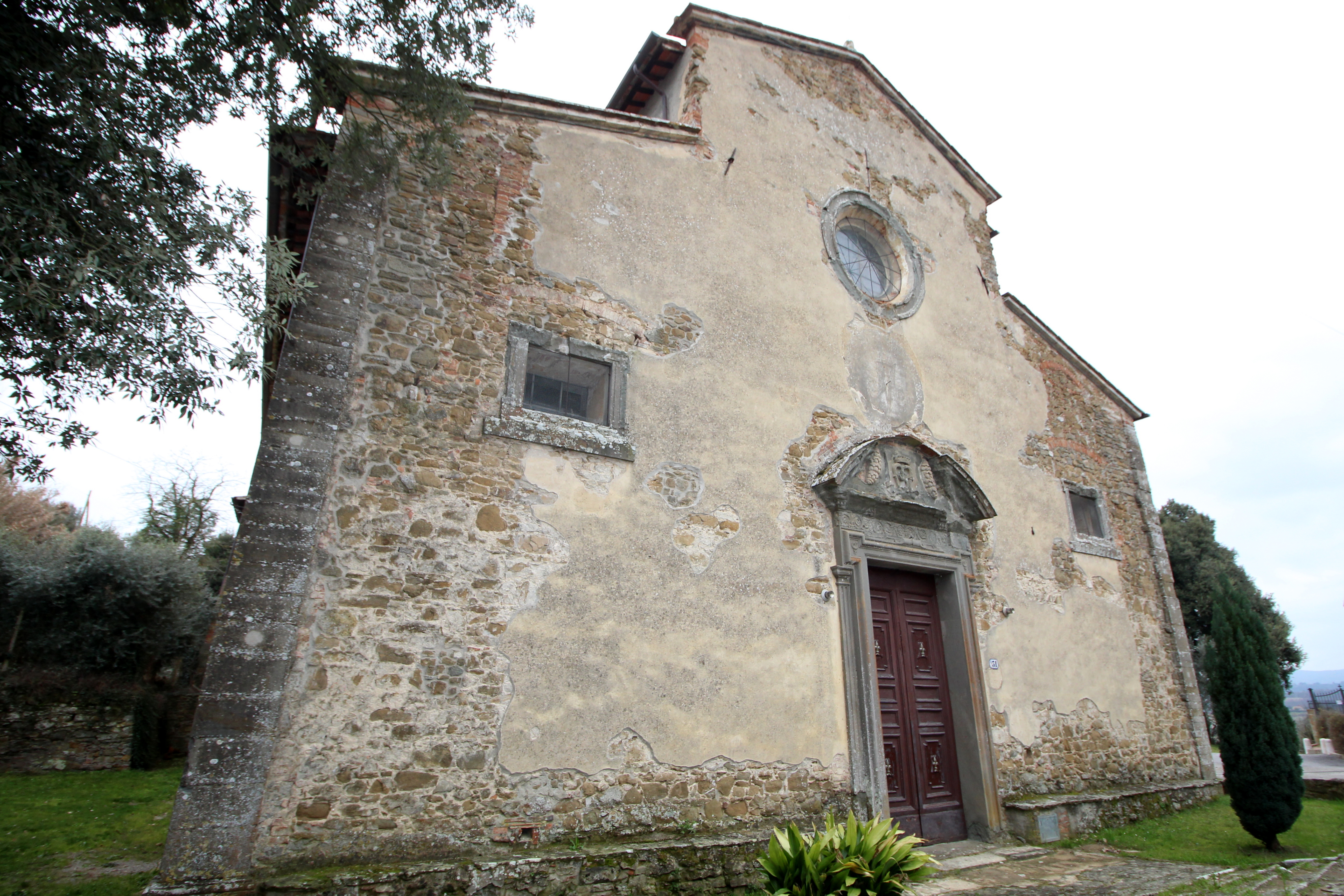 Church Santa Maria della Querce (Santuario di Santa Maria della Querce), just outside Lucignano (della Chiana), Province of Arezzo, Tuscany, Italy